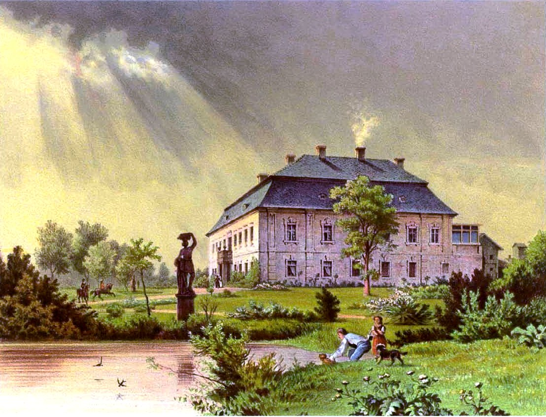 Palace in Wielowieś in Upper Silesia, 19th century